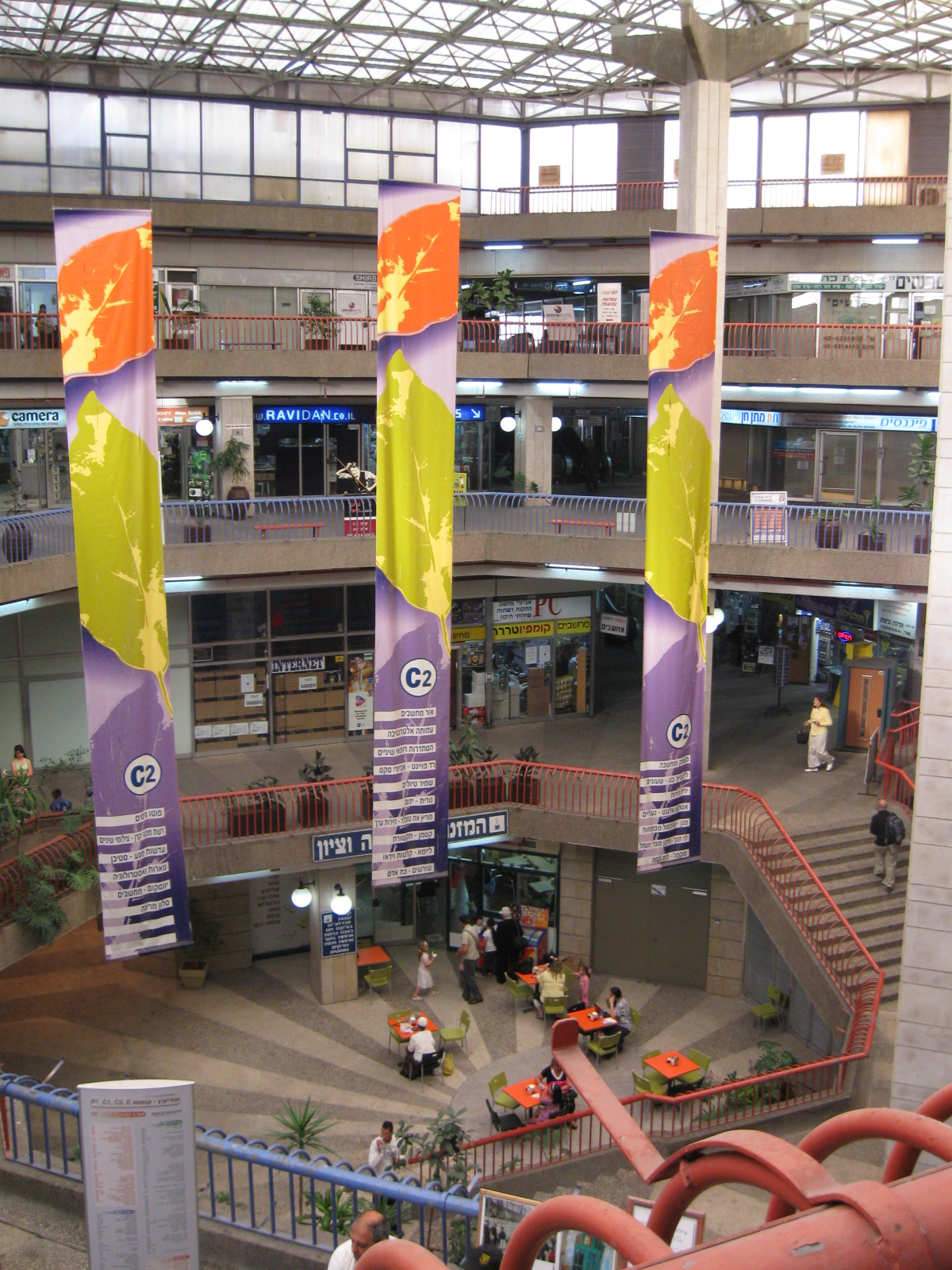 Interior of Mercaz Clal Building at 97 Jaffa St., showing lower shopping levels and food court.